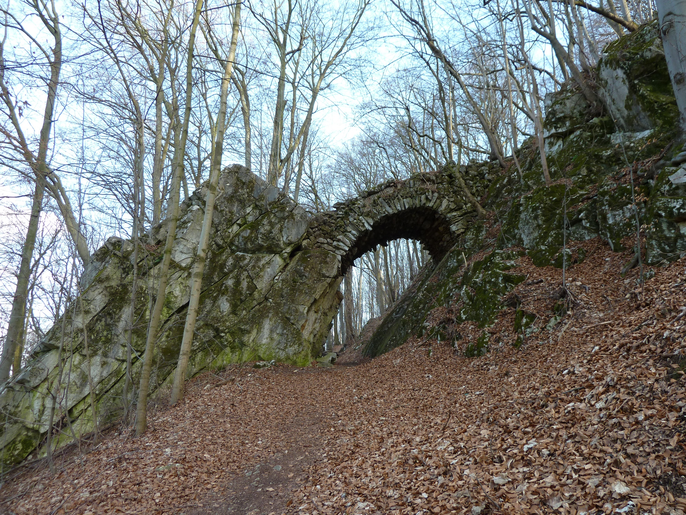 man-made sculpture on Třesín hill (near Mladeč, central Moravia, Czech Republic)